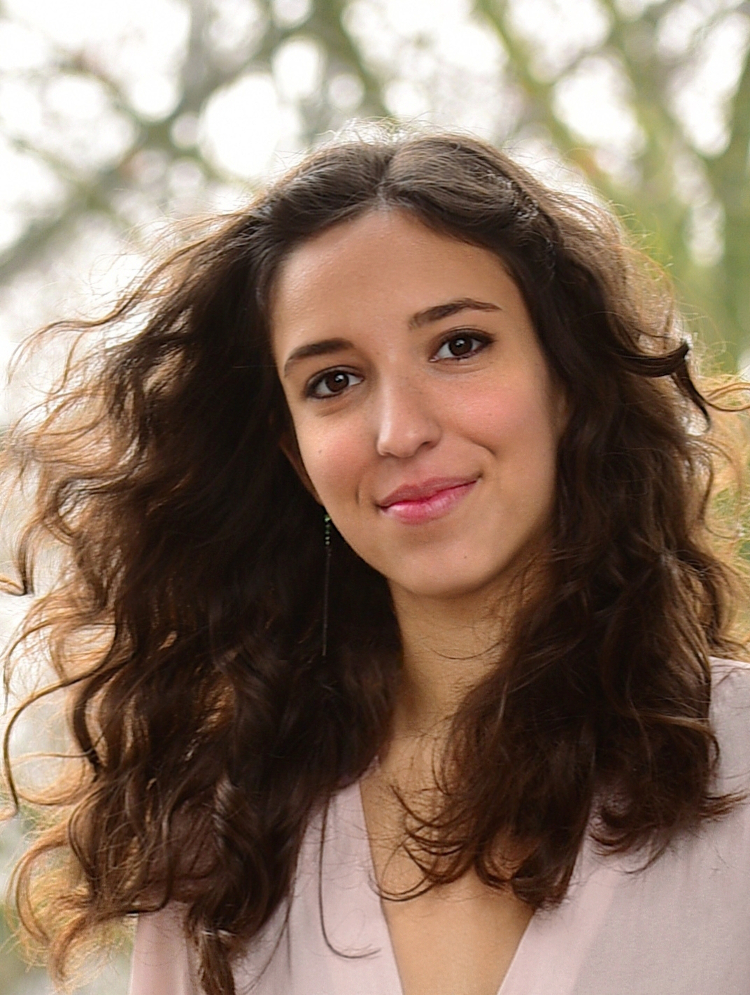 Raquel Nuez Suarez, Spanish Classical Violinist